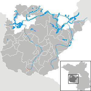 Locator map of municipalities in the district of Potsdam-Mittelmark, Brandenburg, Germany